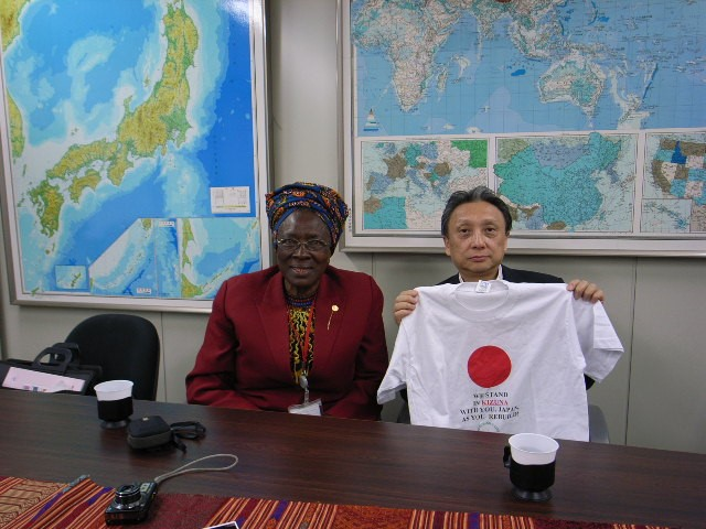 Miriam Were, Chairperson of the National AIDS Control Council, met Masato Mugitani, Deputy Director-General for Global Health, Ministry of Health, Labour and Welfare, in Tōkyō Metropolis on October 7, 2011.